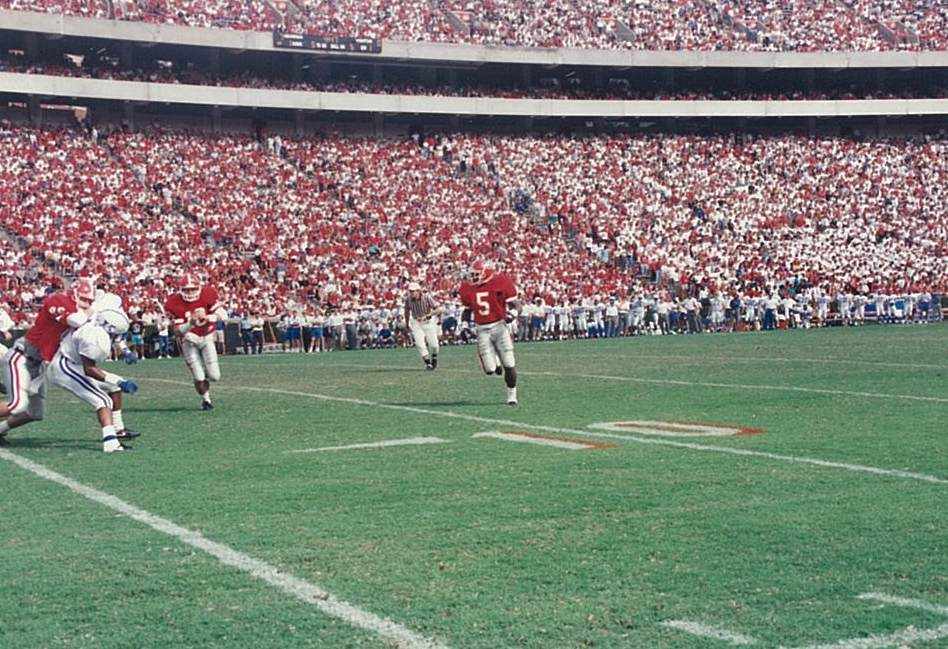 University of Georgia's Eric Zeier (jersey #10) running the option with teammate Garrison Hearst (jersey #5) against the Kentucky Wildcats.